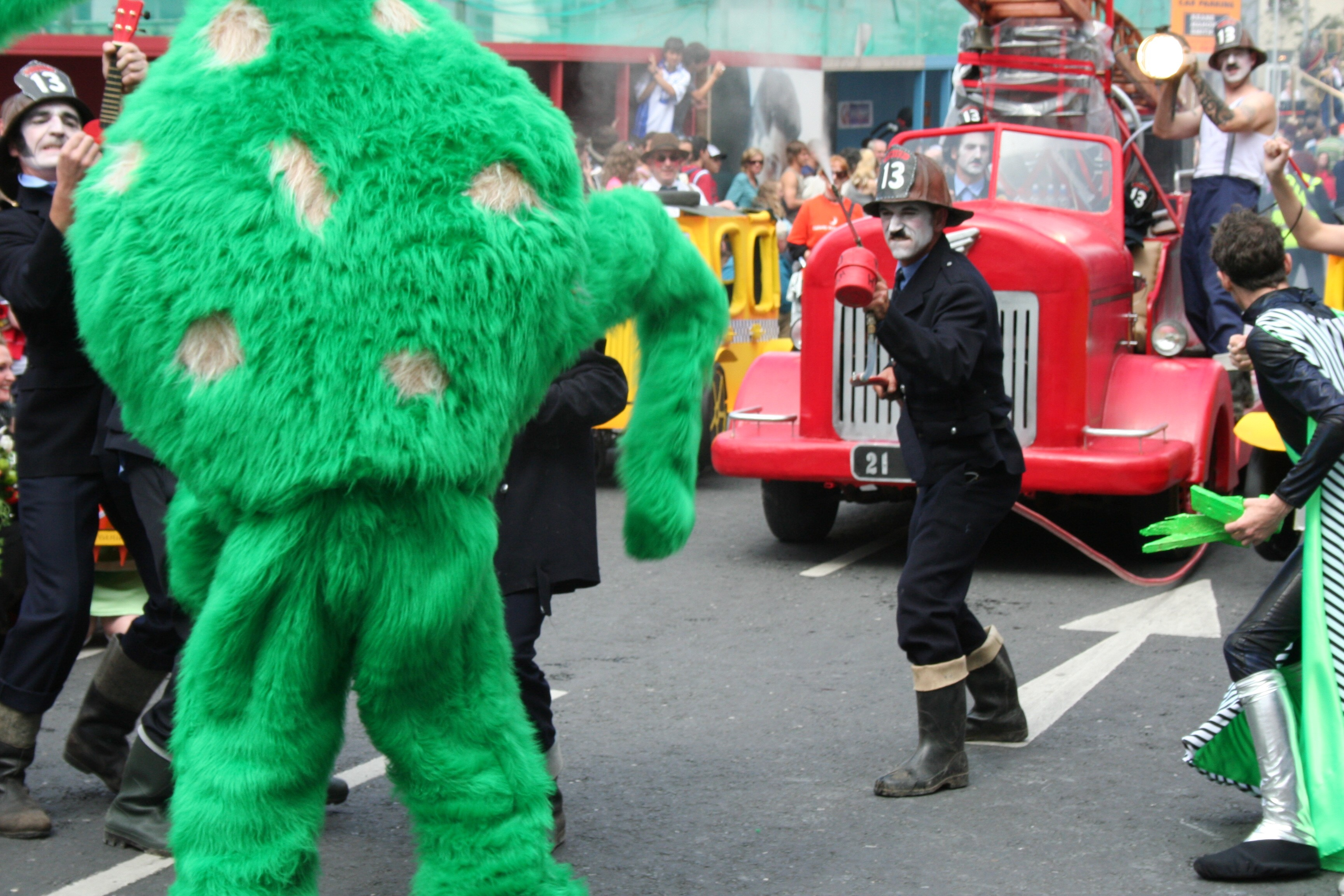 A scene from the Galway Arts Festival Parade 2007 Credit: A Peter Clarke image